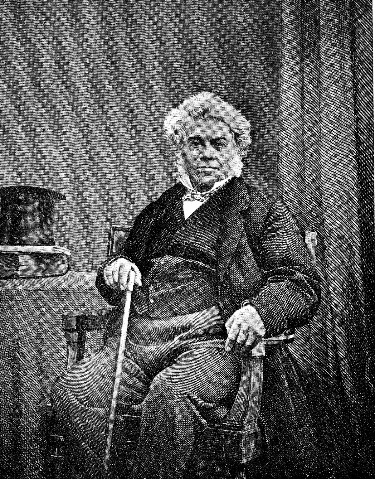 Portrait of Professor William Dick from postcard Iconographic Collections Keywords: vetinary surgery, 19th century; William Dick; T Knott